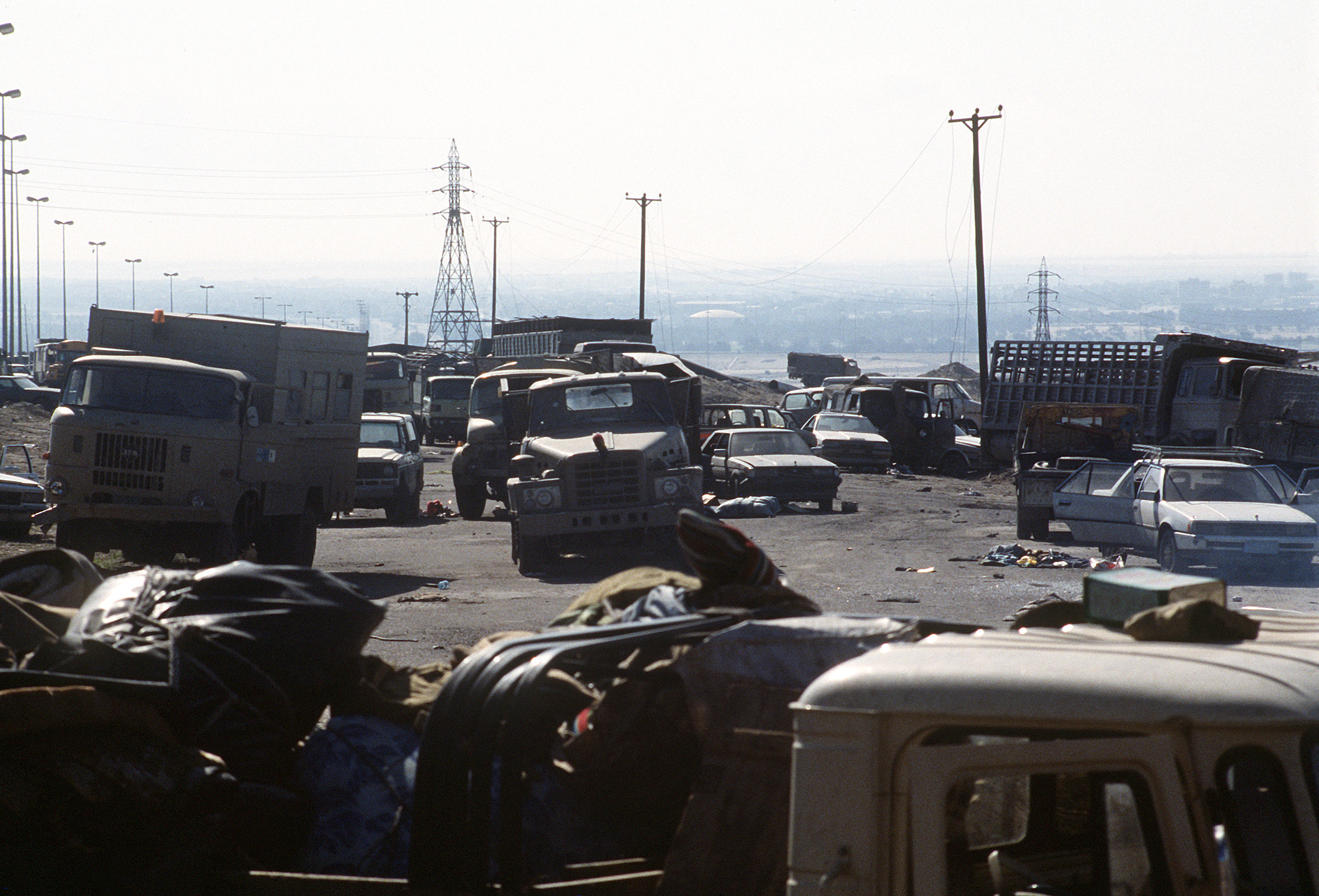 Abandoned cars and trucks clog the road leading out of Kuwait City after the retreat of Iraqi forces from the city during Operation Desert Storm.